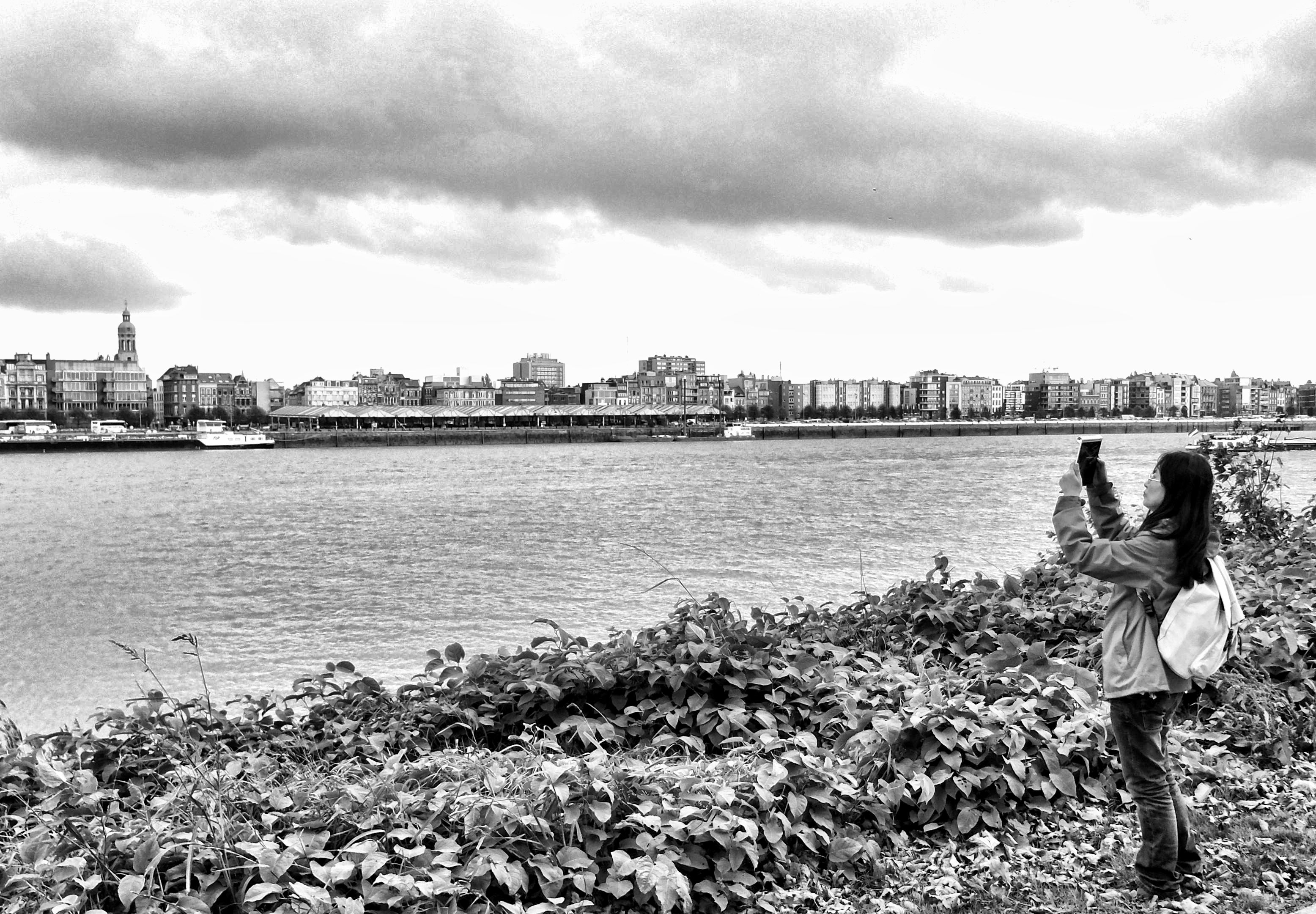 Girl taking a photo at river Scheldt on a clouded day